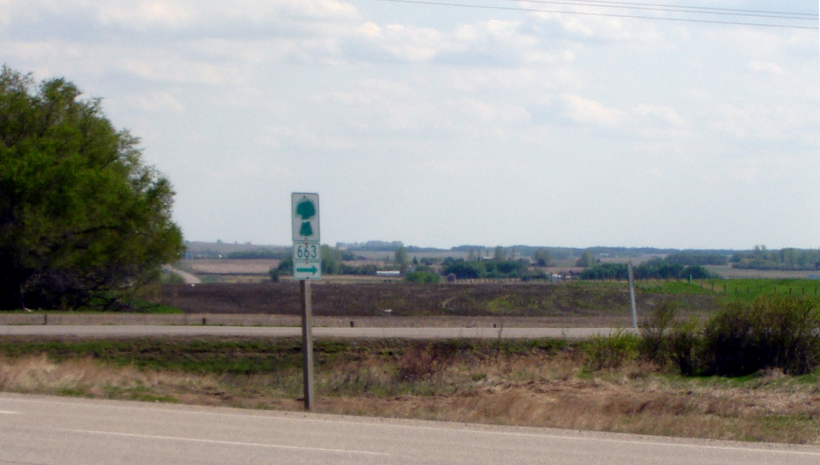 Saskatchewan Highway 663 road sign located at Saskatchewan Highway 16 or Yellowhead Highway